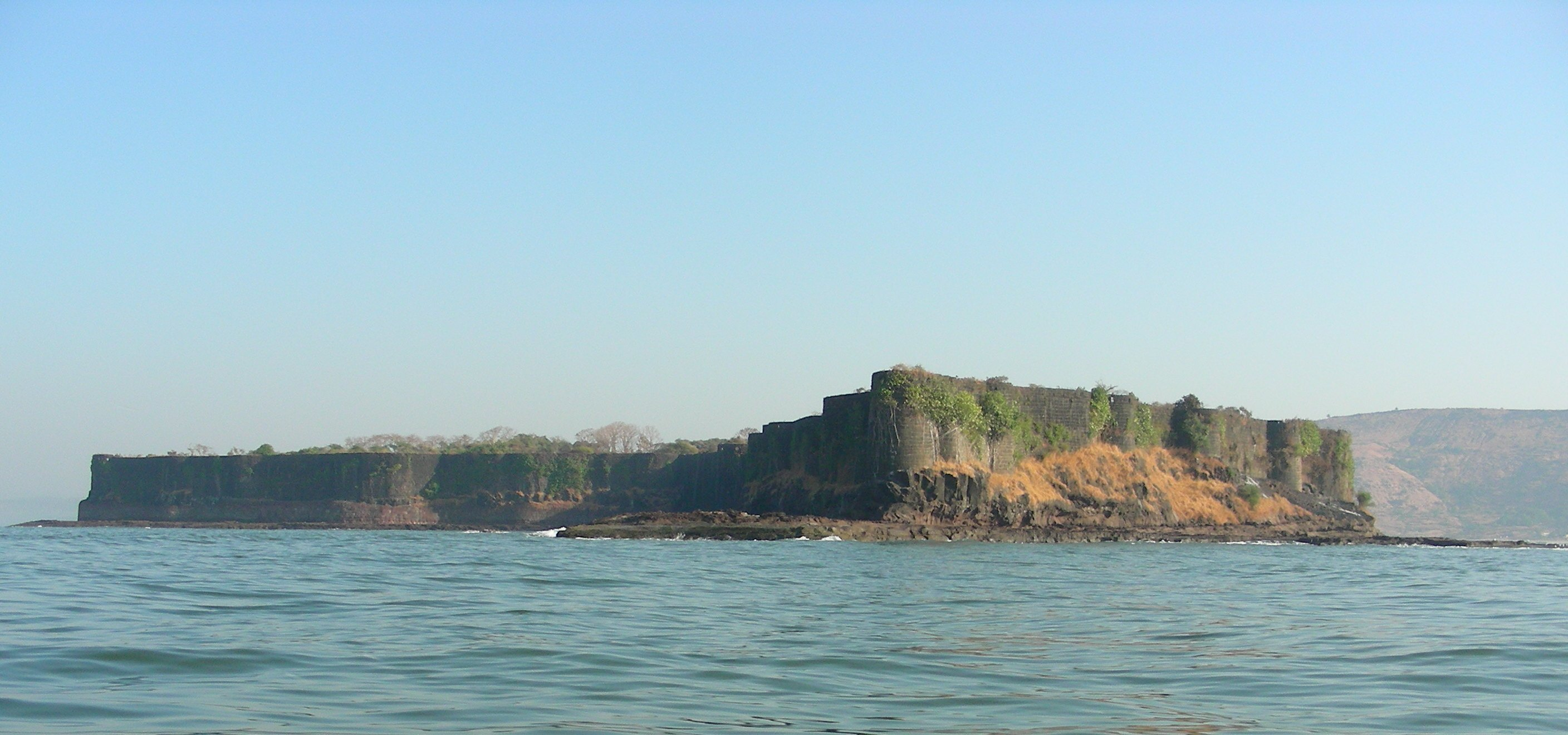 Suvarnadurg fort, off Harnai village, Dapoli district